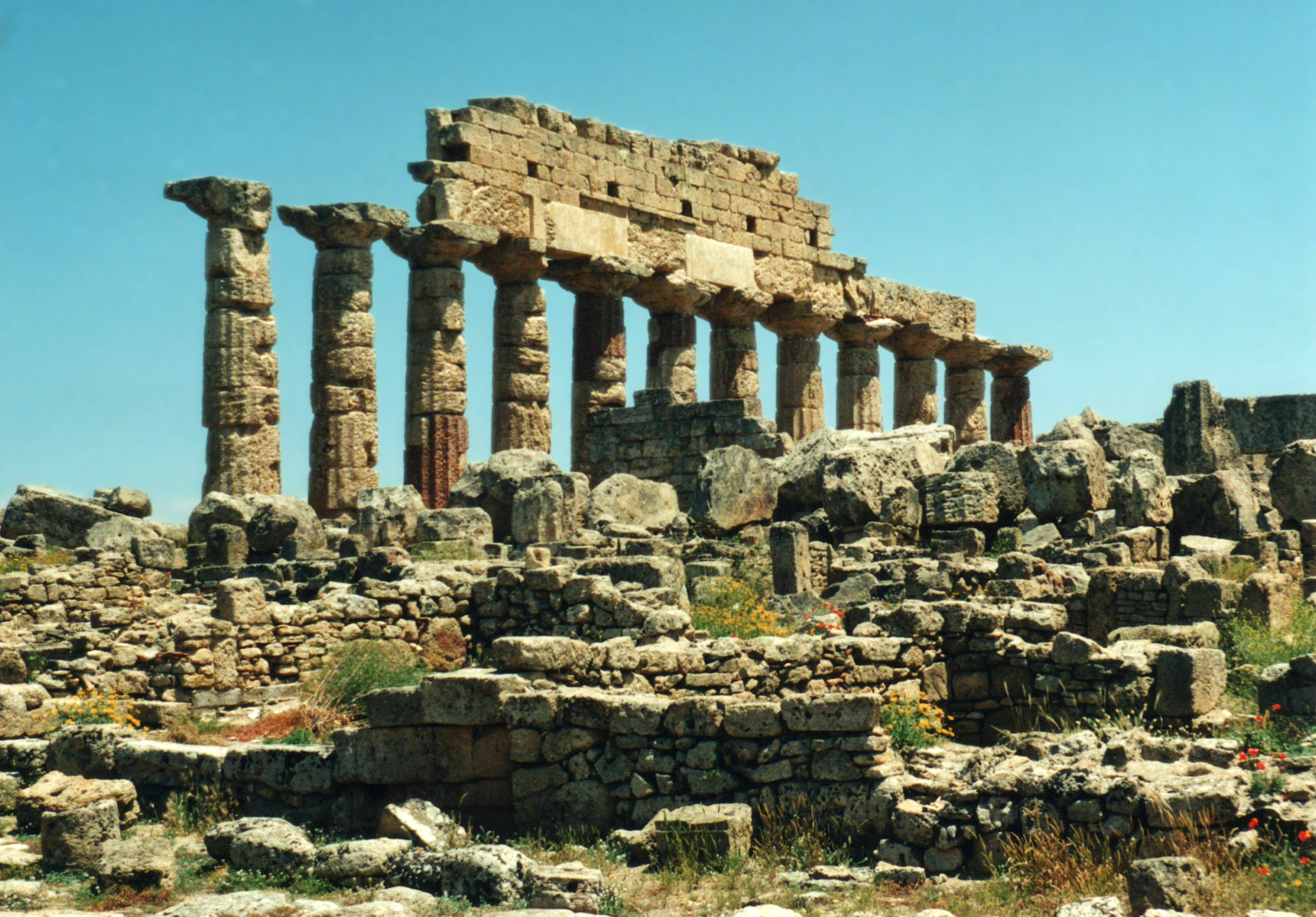 Temple C dates from the 6th century BC. The line of its restored columns is seen here behind the ruins of temples A and B.